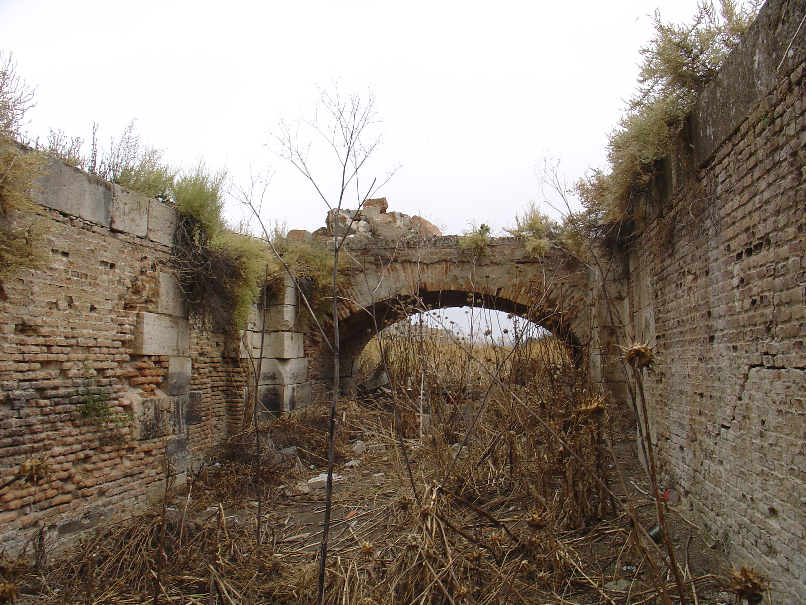 The tenth lock of the Manzanares Royal Chanel in Getafe, Madrid. View from inside. Full of weed, we can see the construction on brick an limestone very well preserved.